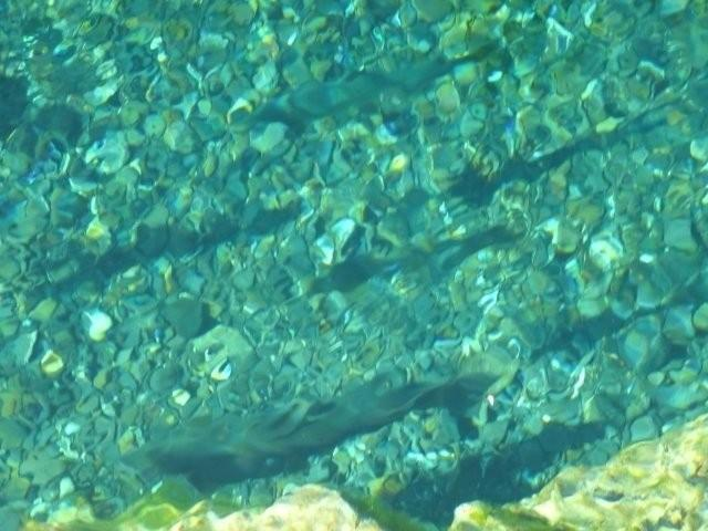 Almost each year for the past 10 years, I went to a salon fishing trip with my father on the 3 Pabos Rivers near Chandler in gaspesia, Québec. I took a lot of photos of the 3 rivers. I took the pictures myself.